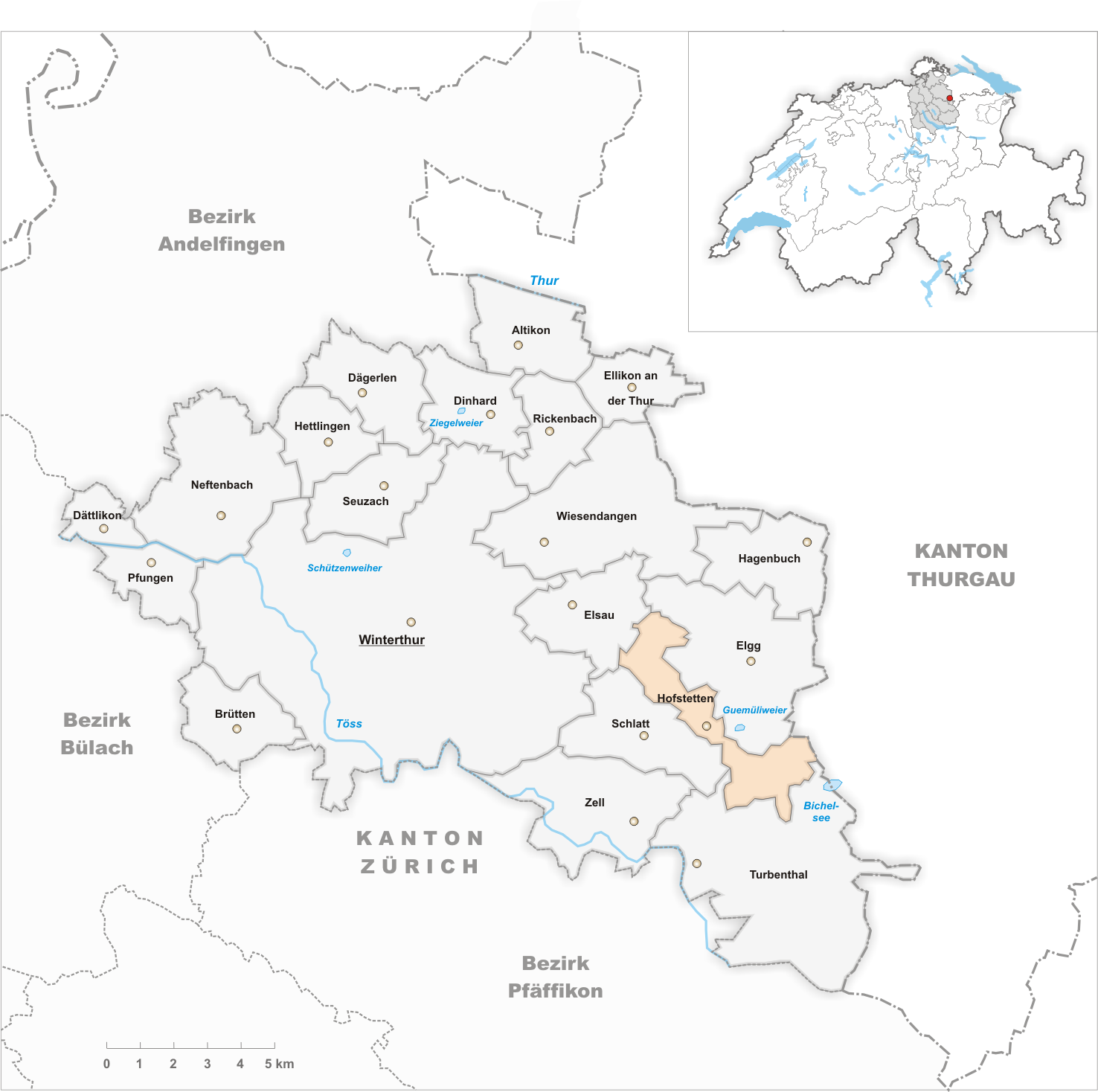 Municipality Hofstetten